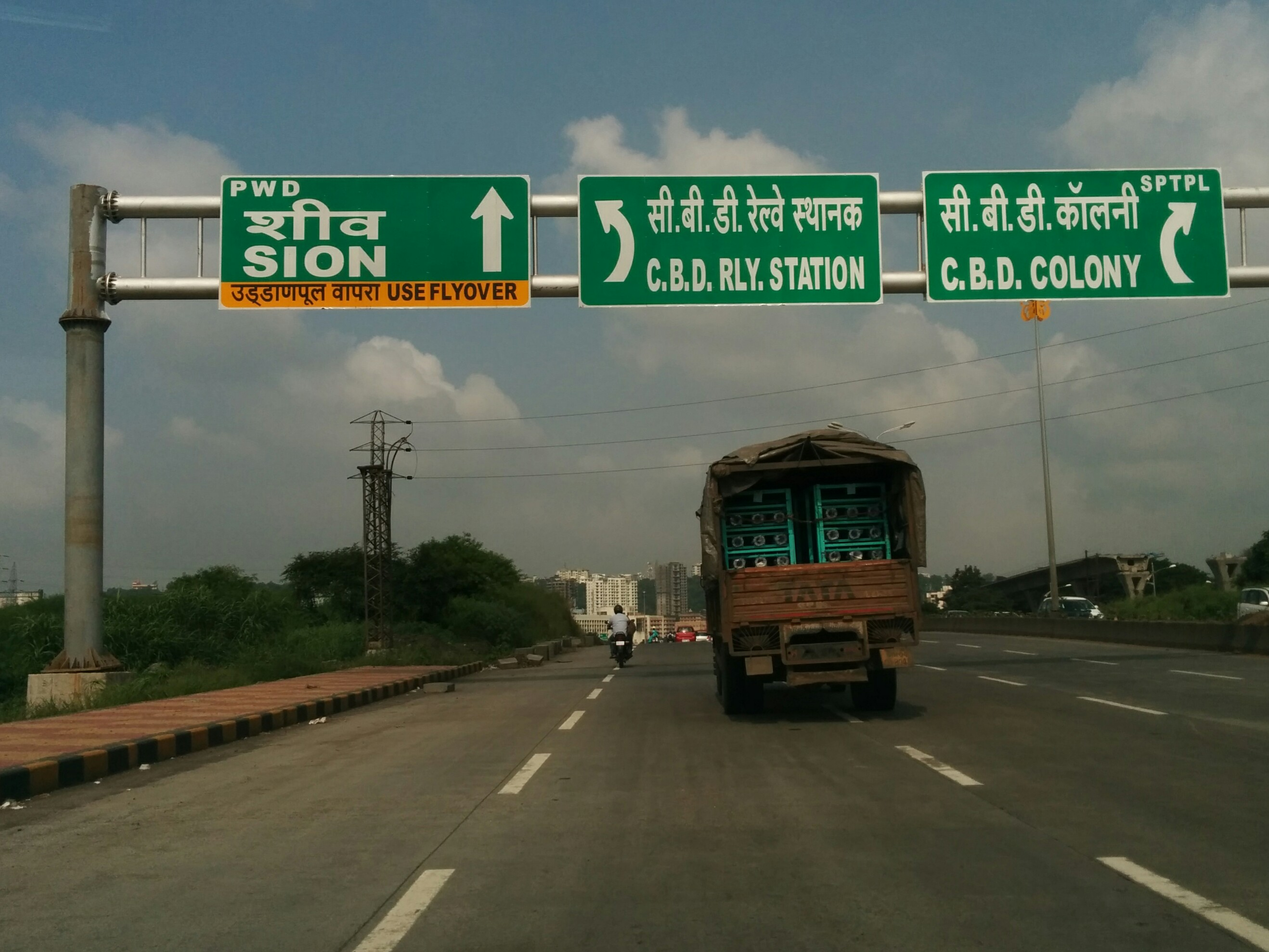 CBD Belapur exit sign on Sion Panvel Highway in Greater Mumbai